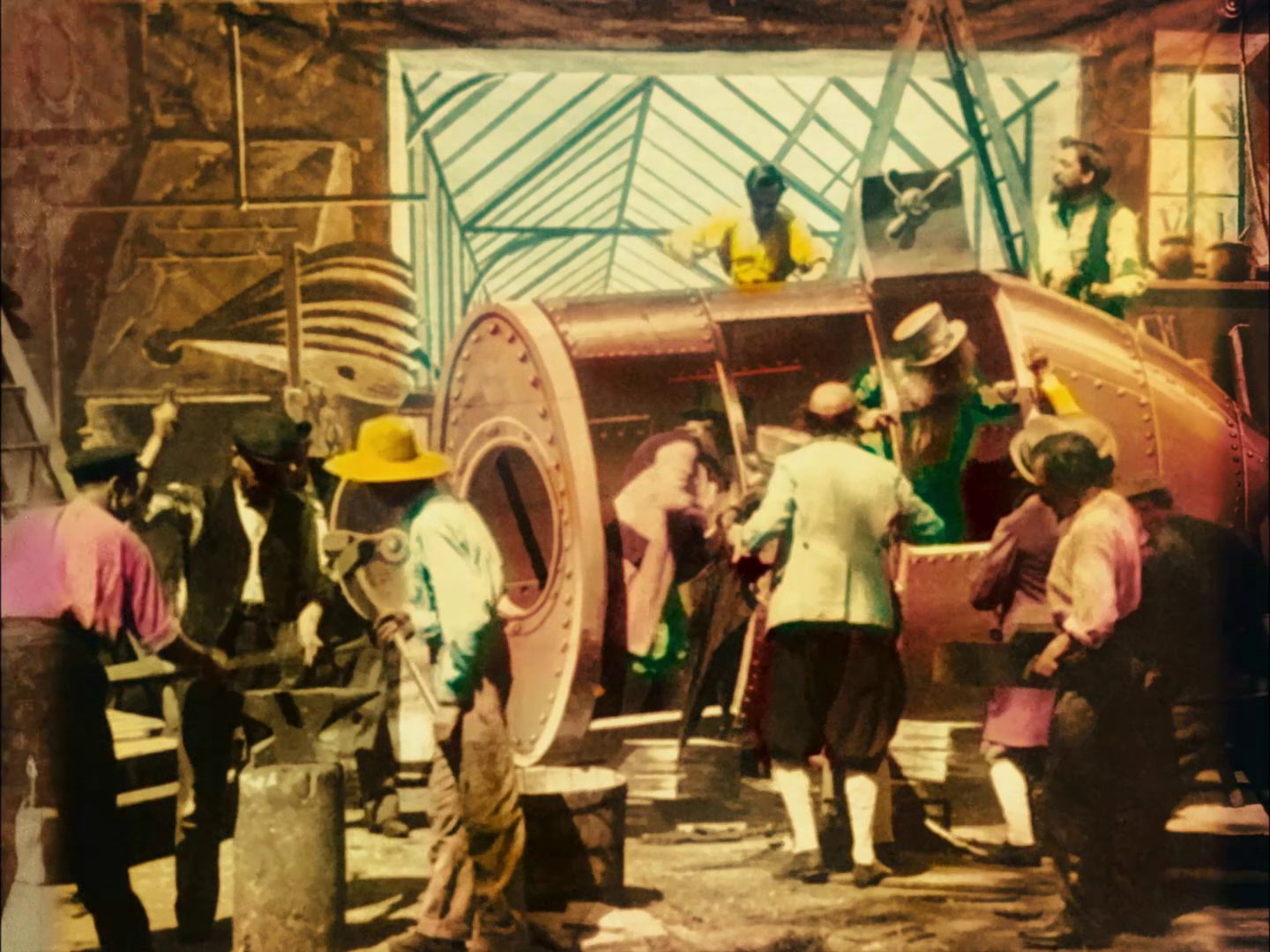 Frame from the only surviving hand-colored print of Georges Méliès's A Trip to the Moon, showing the workshop in which the space capsule is built.